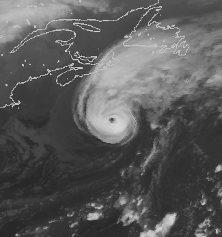 Hurricane Debby at peak intensity on September 18, 1982